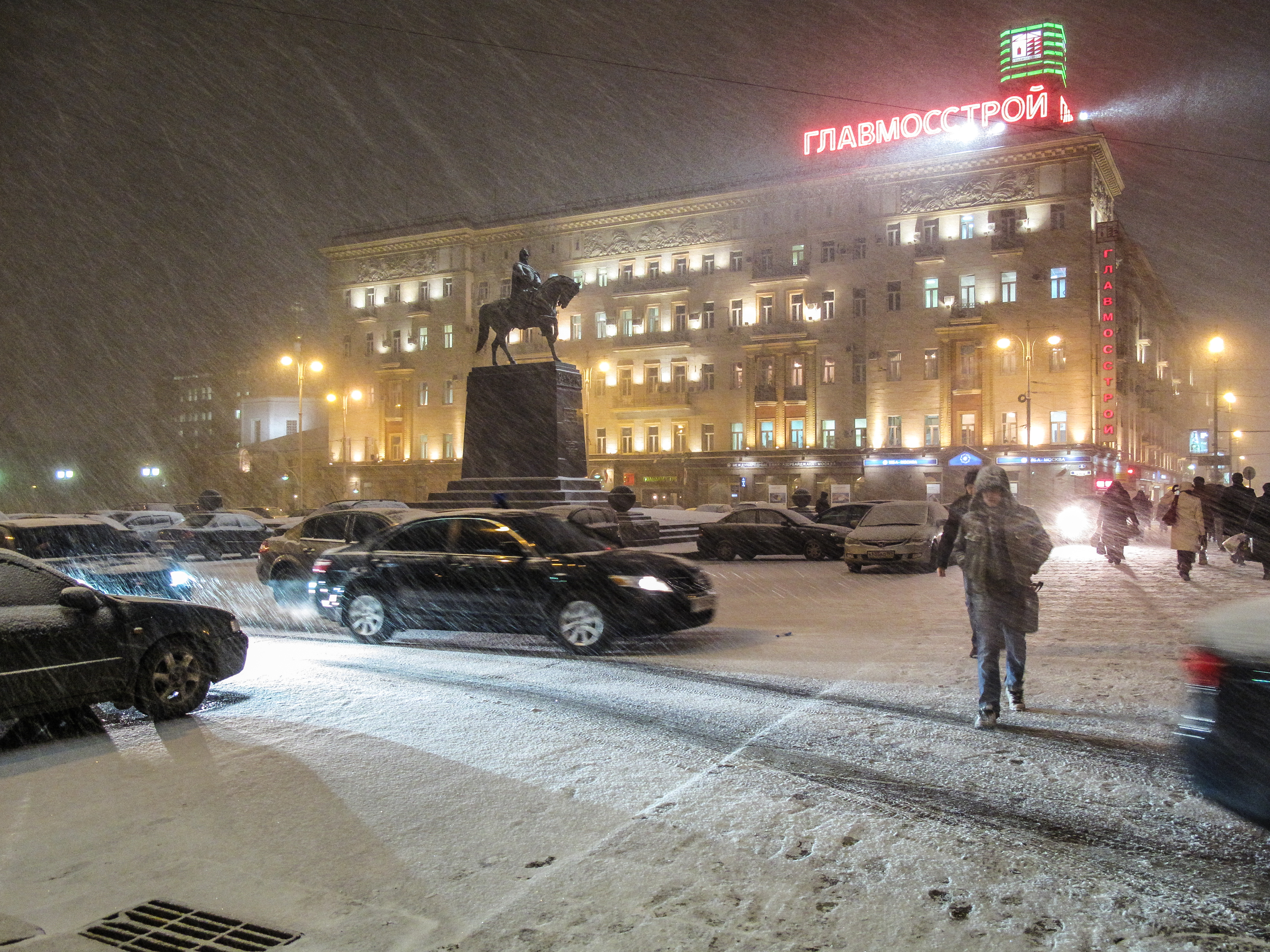 Snowy Moscow - Tverskaya Square - yes, you could actuall park the car there and it would cost you precisely nothing. Today, it's a certified tow-away and a heavy fine.